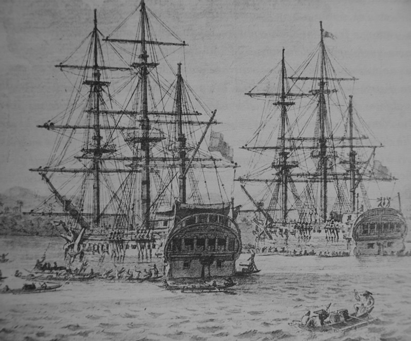 Image of the Malaspina Expedition (1789–1794) — at the island of Samar, the Philippines. 1875 drawing by Fernando Brambila.